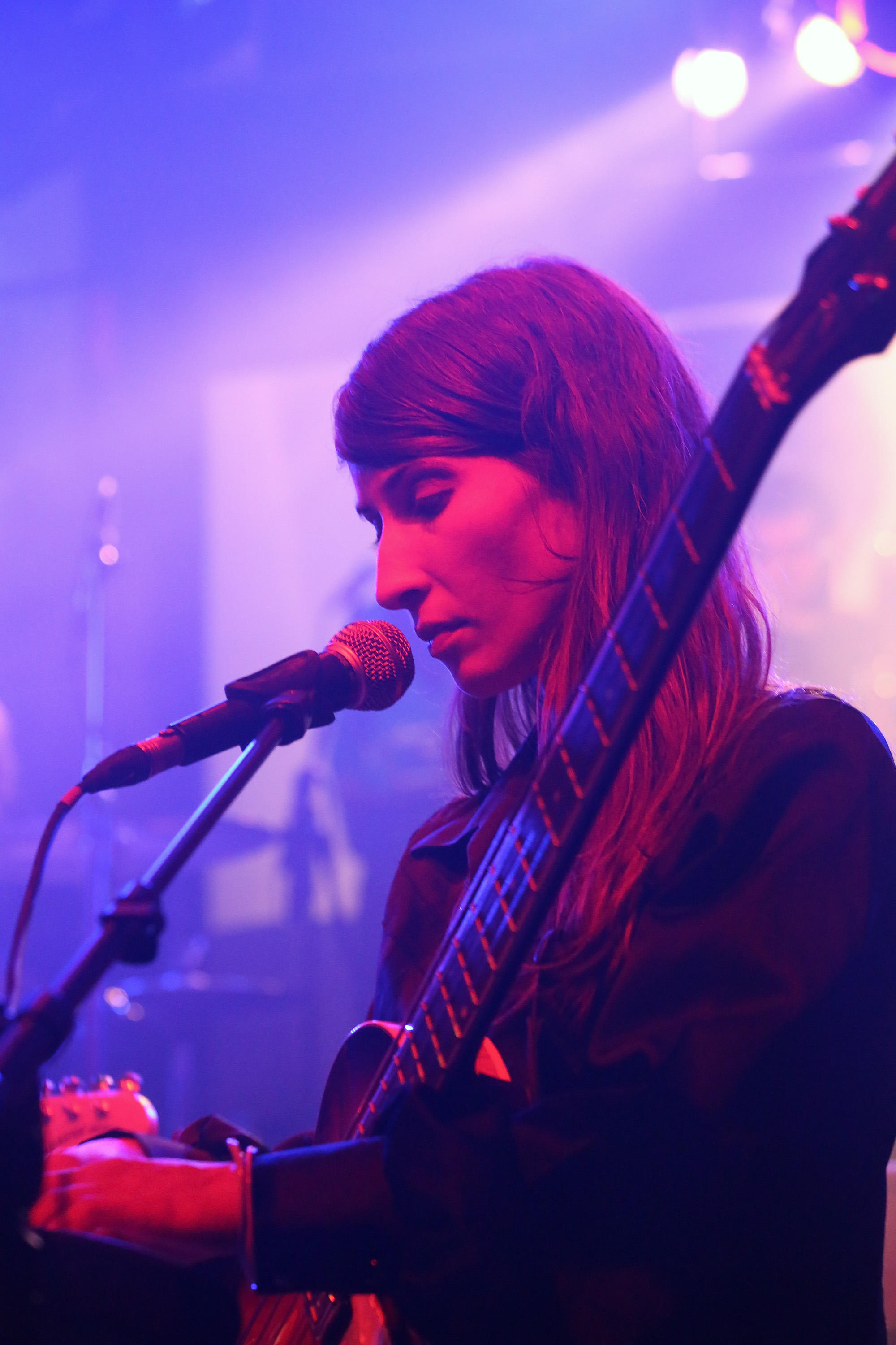 Velojet, concert at Fluc during Waves Vienna Music Festival & Conference 2013 in Vienna, Austria.